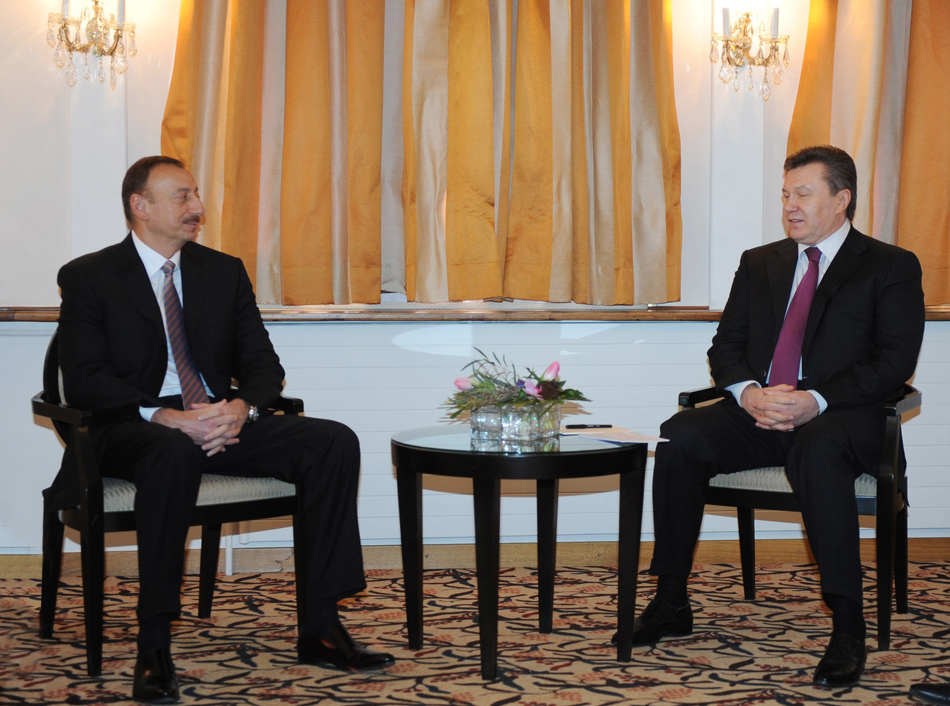 Ilham Aliyev met with President of Ukraine, Viktor Yanukovych